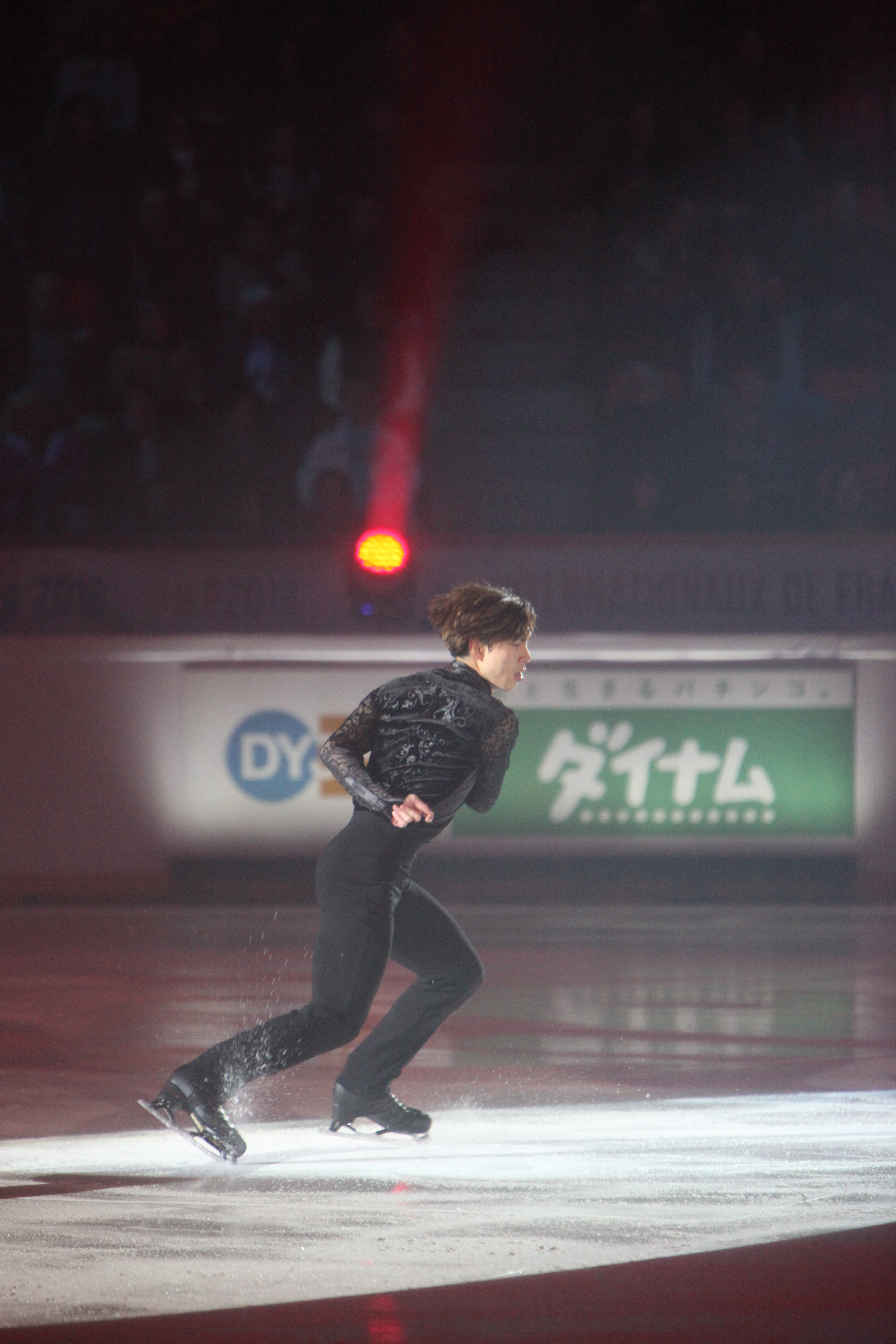 Keiji Tanaka during the gala at the Internationaux de France de Patinage 2018.